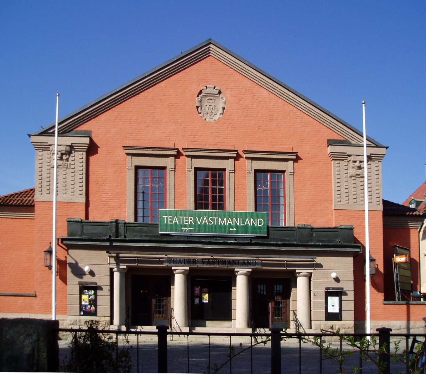 Theatre at Västerås